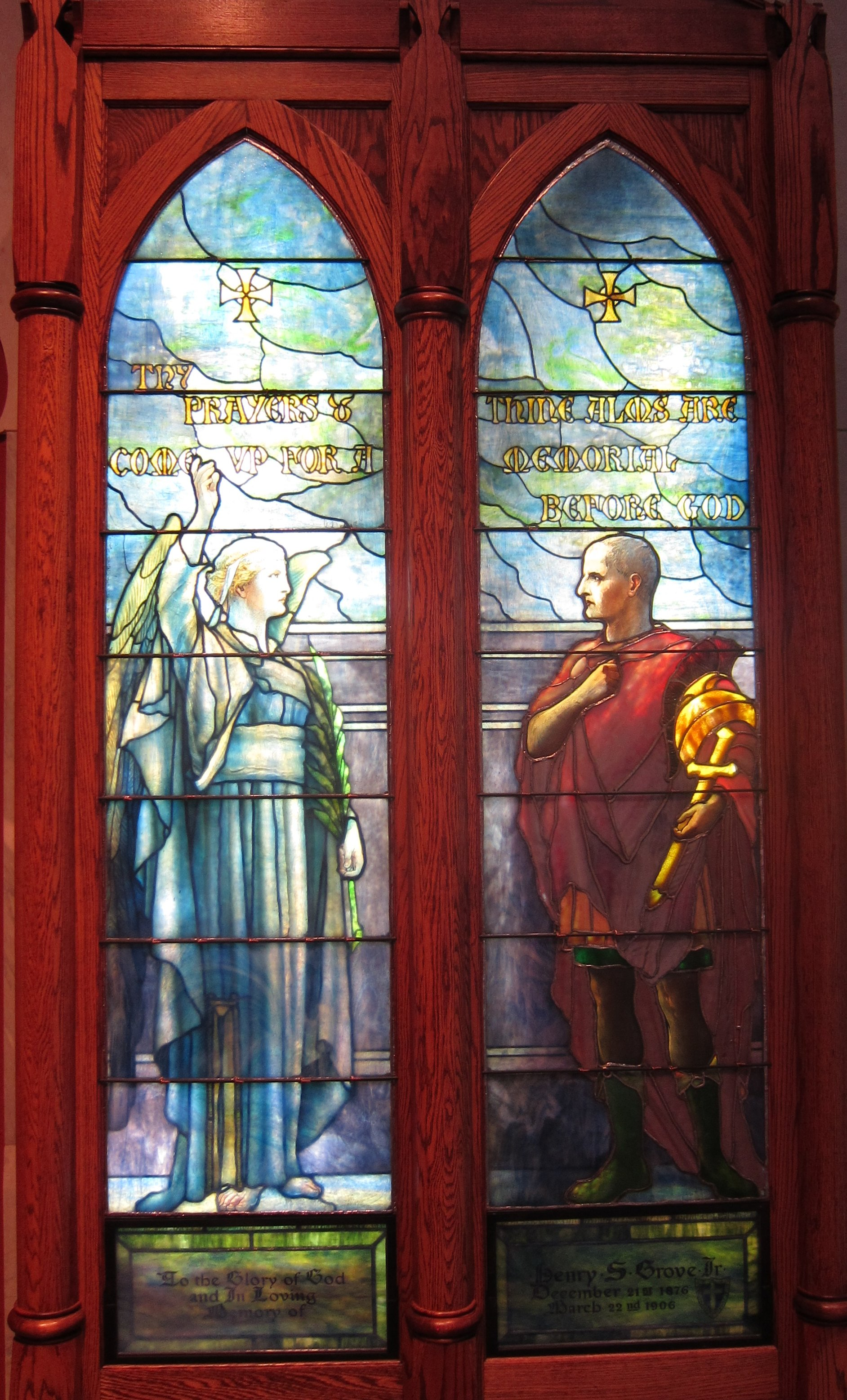 Saint Cornelius and Angel, stained glass lancet windows by Tiffany Studios, c. 1910, installed in the Pennsylvania Academy of the Fine Arts